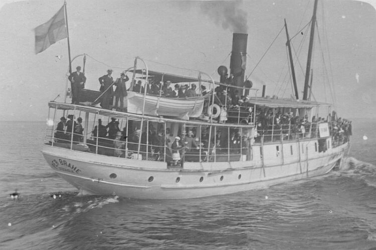 S/S Per Brahe on a postcard